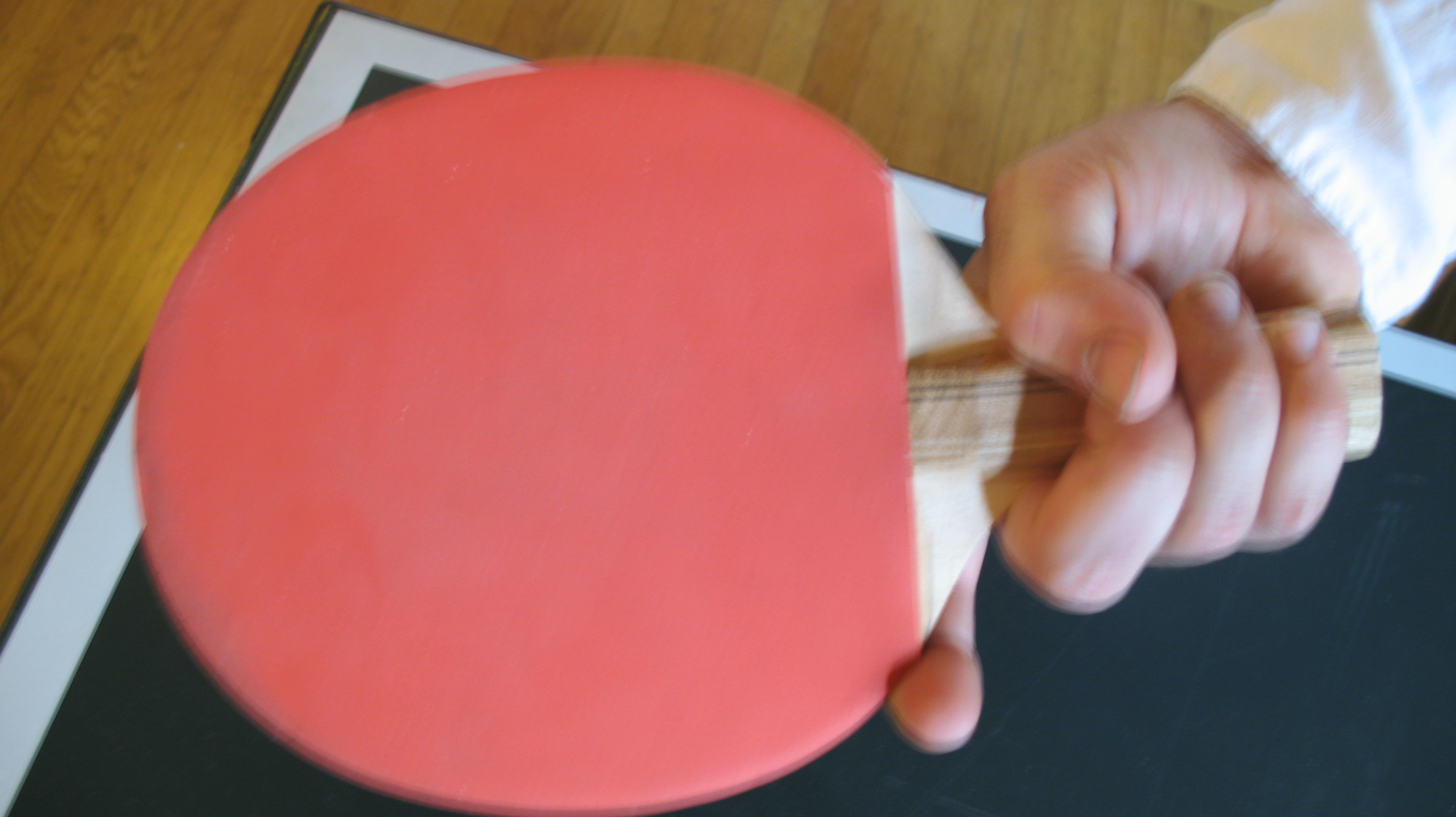 An example of the "classic" or "european" grip used in Table Tennis.